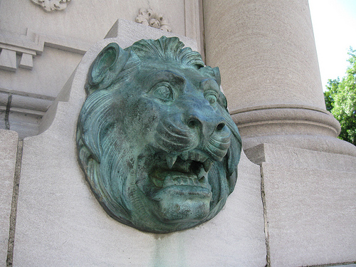 Westland Gate lion fountain head, Back Bay Fens, Boston, MA